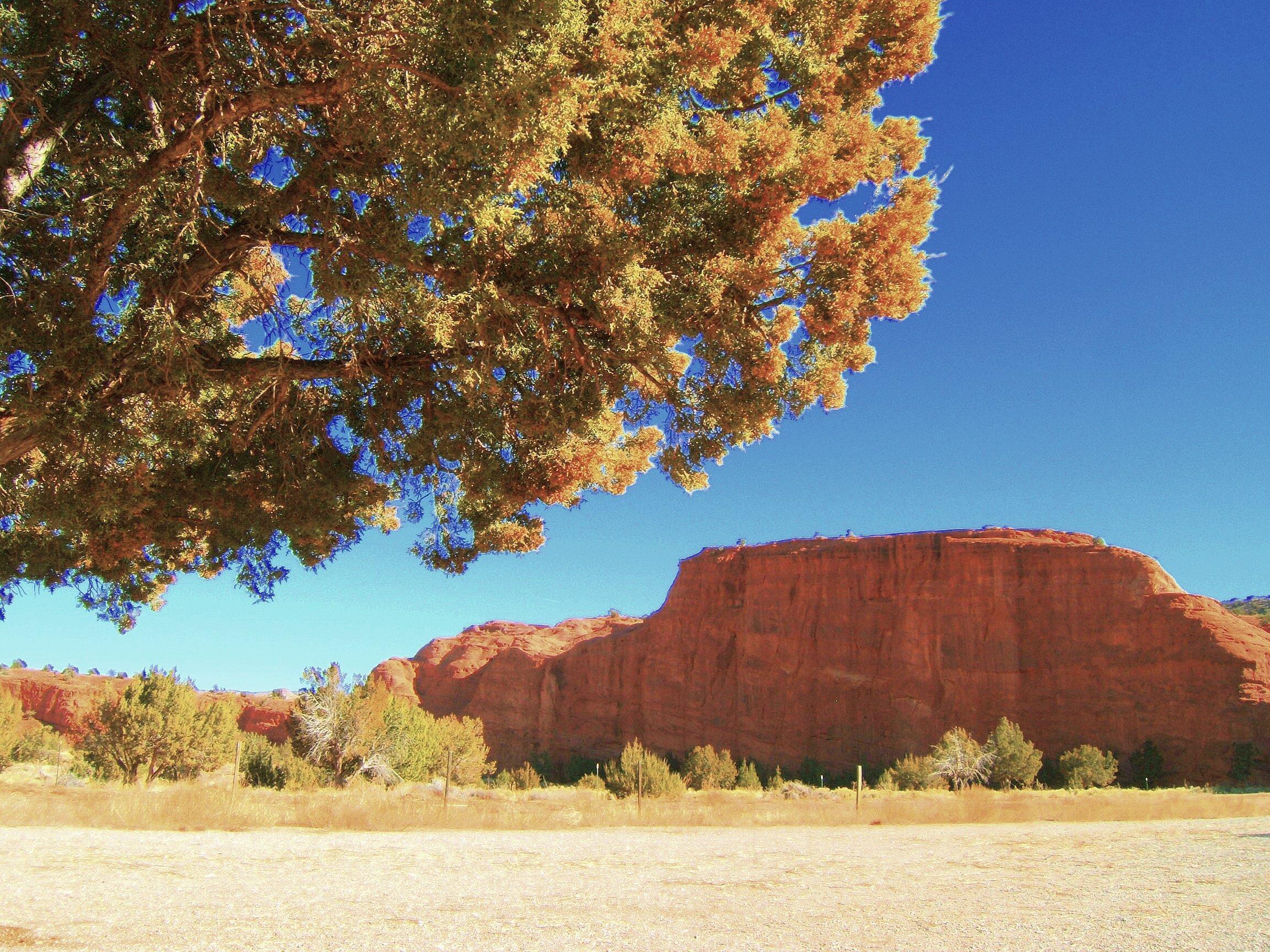 Red rocks on Jemez Pueblo, New Mexico